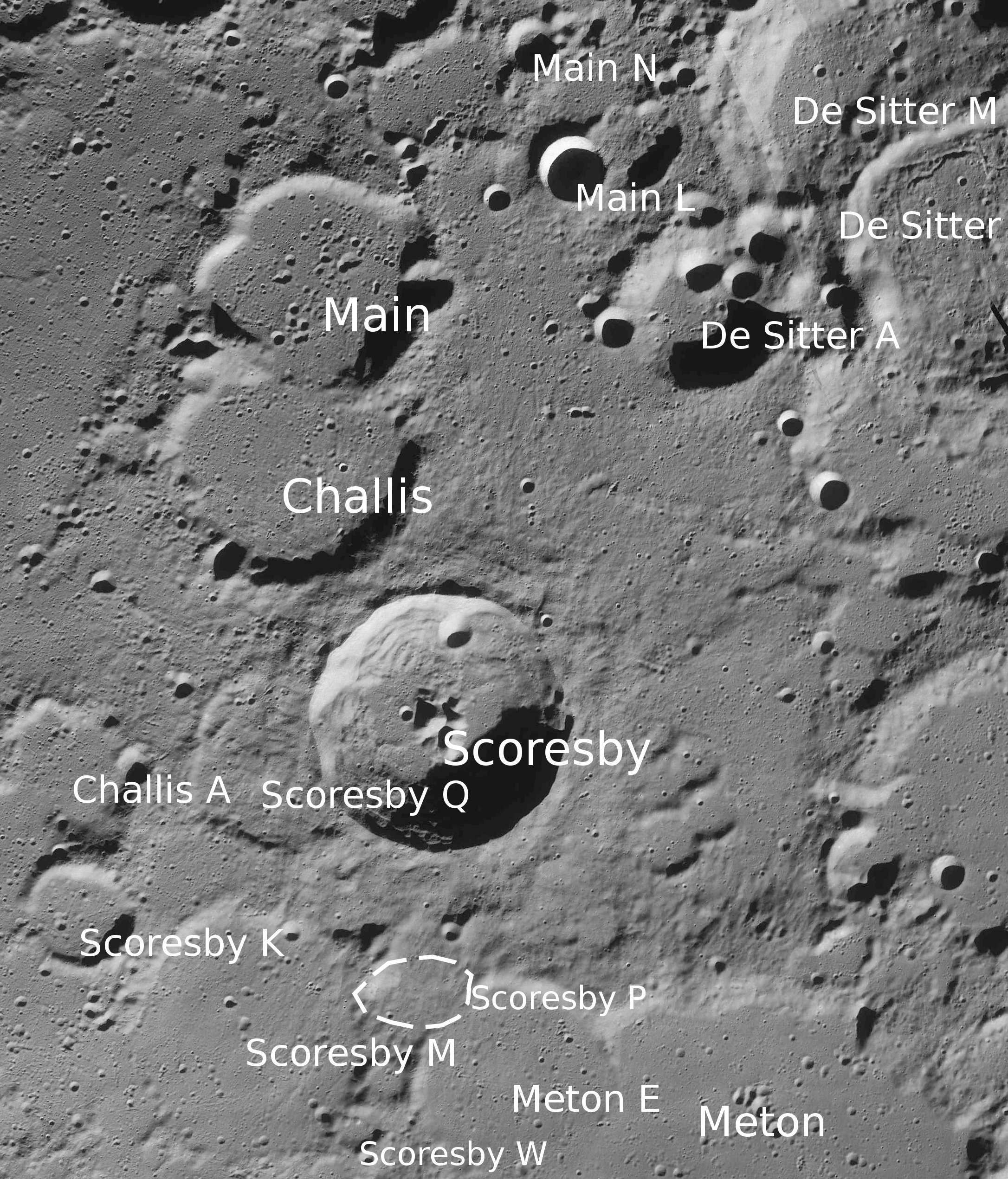 Moon craters Challis, Scoresby and Main with satellite features (north at top; detail of LRO - WAC north pole mosaic)